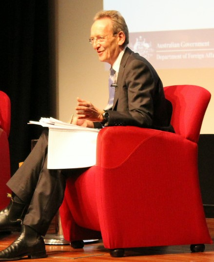 Photo of Jim Middleton hosting an Australian Department of Foreign Affairs and Trade event with the Australian Ambassador to China Frances Adamson (cropped)